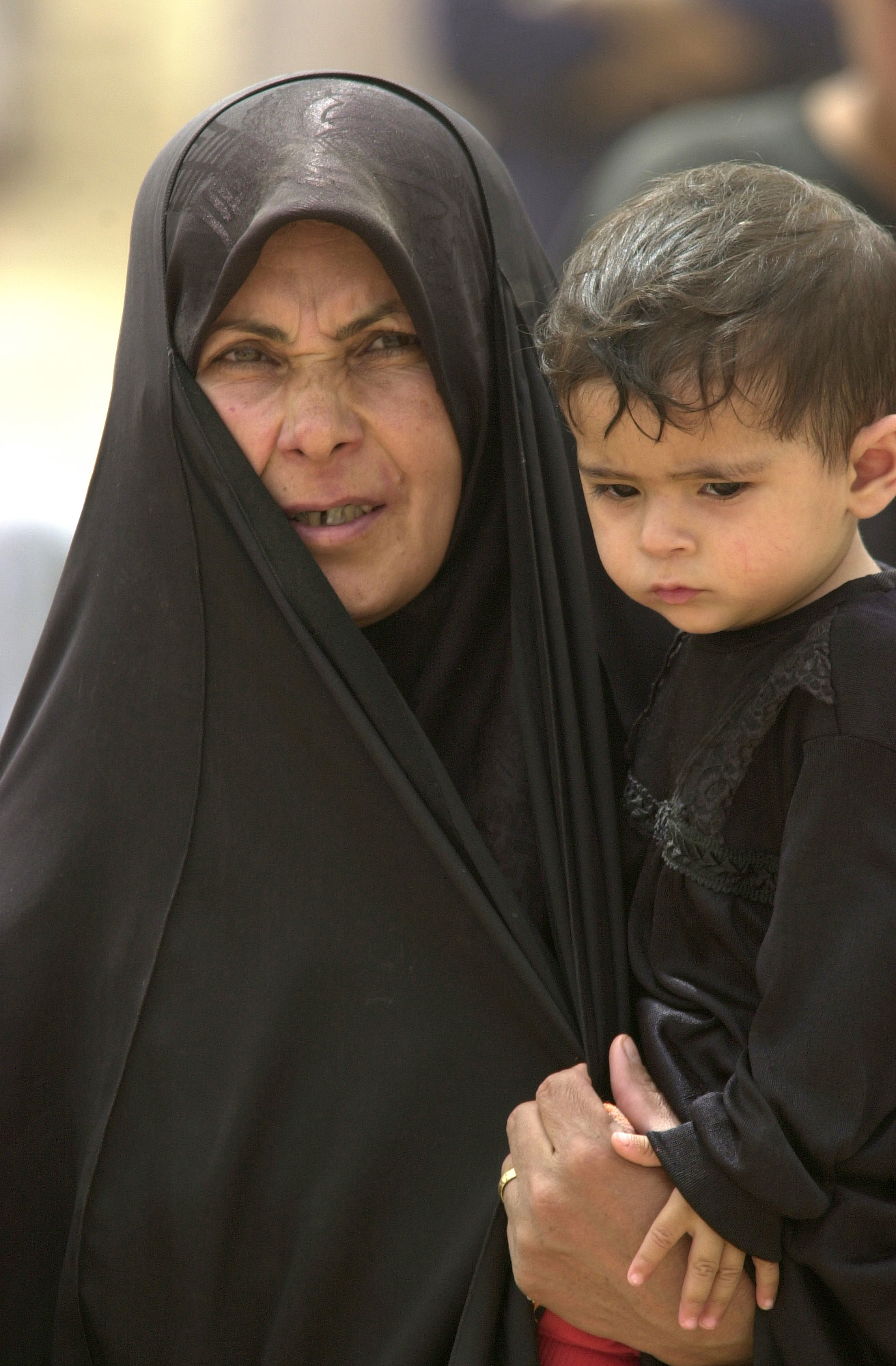 Near Al Najaf, Iraq (April 08, 2003) -- An Iraqi women waits with her son to receive food and water supplies at a humanitarian aid distribution site. The U.S. military is working with international relief organizations to help provide food and medicine for the Iraqi people in support of Operation Iraqi Freedom. Operation Iraqi Freedom is the multinational coalition effort to liberate the Iraqi people, eliminate Iraq's weapons of mass destruction and end the regime of Saddam Hussein. U.S. Navy photo by Photographer's Mate 1st Class Arlo K. Abrahamson. (RELEASED)